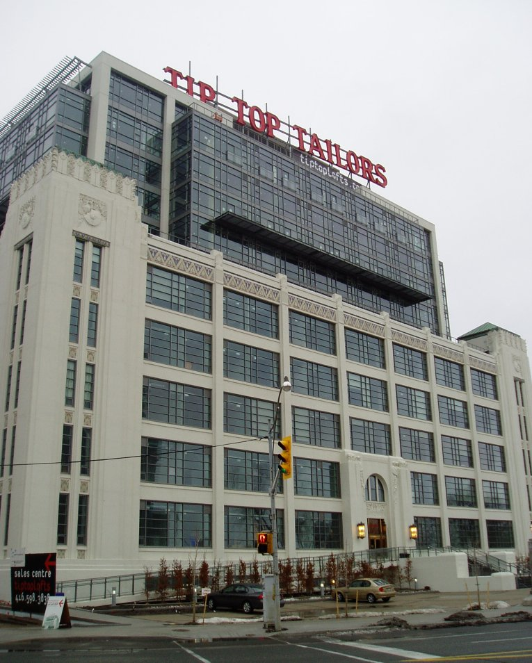 Tip Top Tailor Building